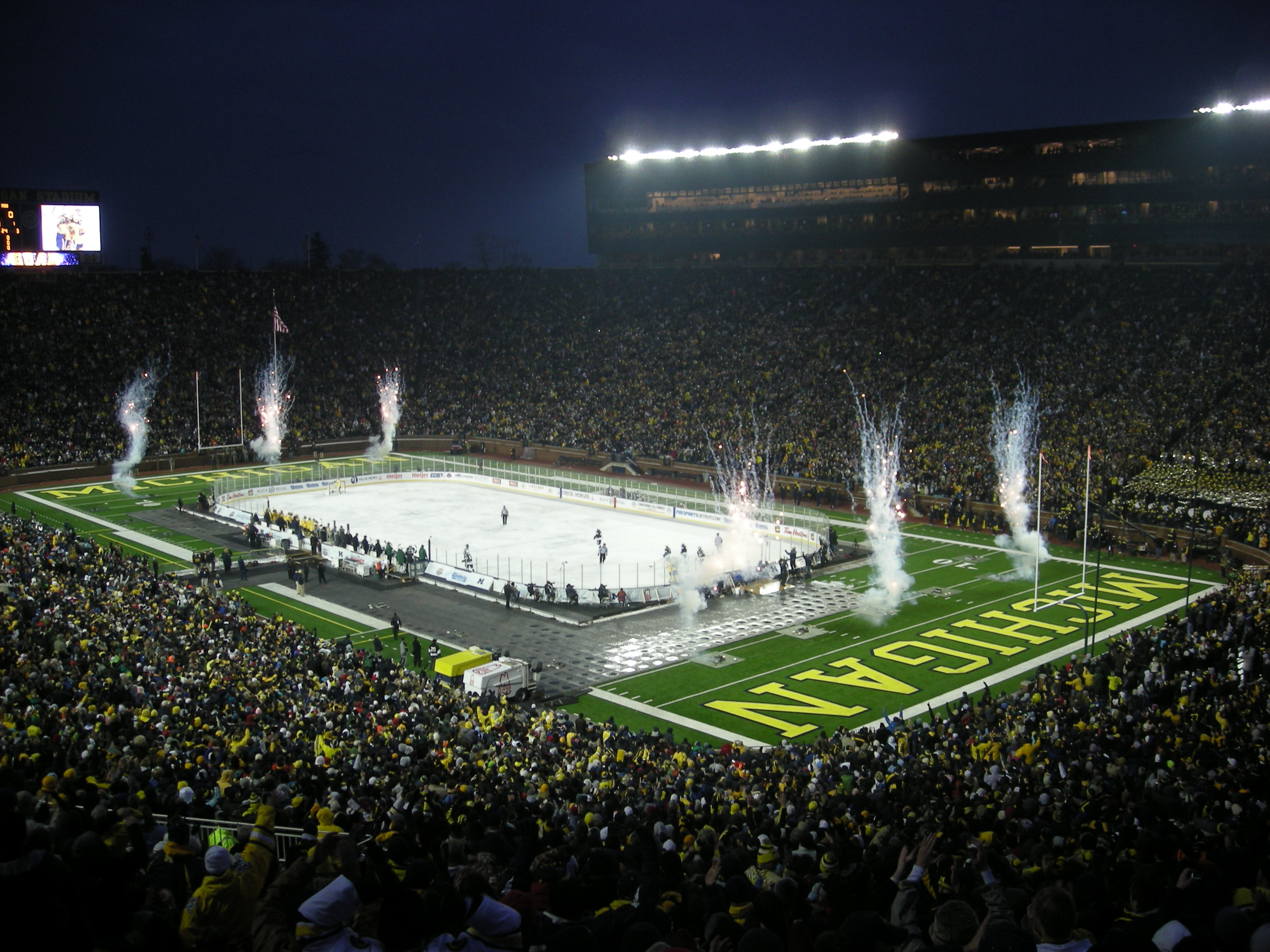 Michigan scores during the Michigan State Spartans vs. Michigan Wolverines men's ice hockey game at Michigan Stadium in Ann Arbor, Michigan (United States). Michigan won 5–0.